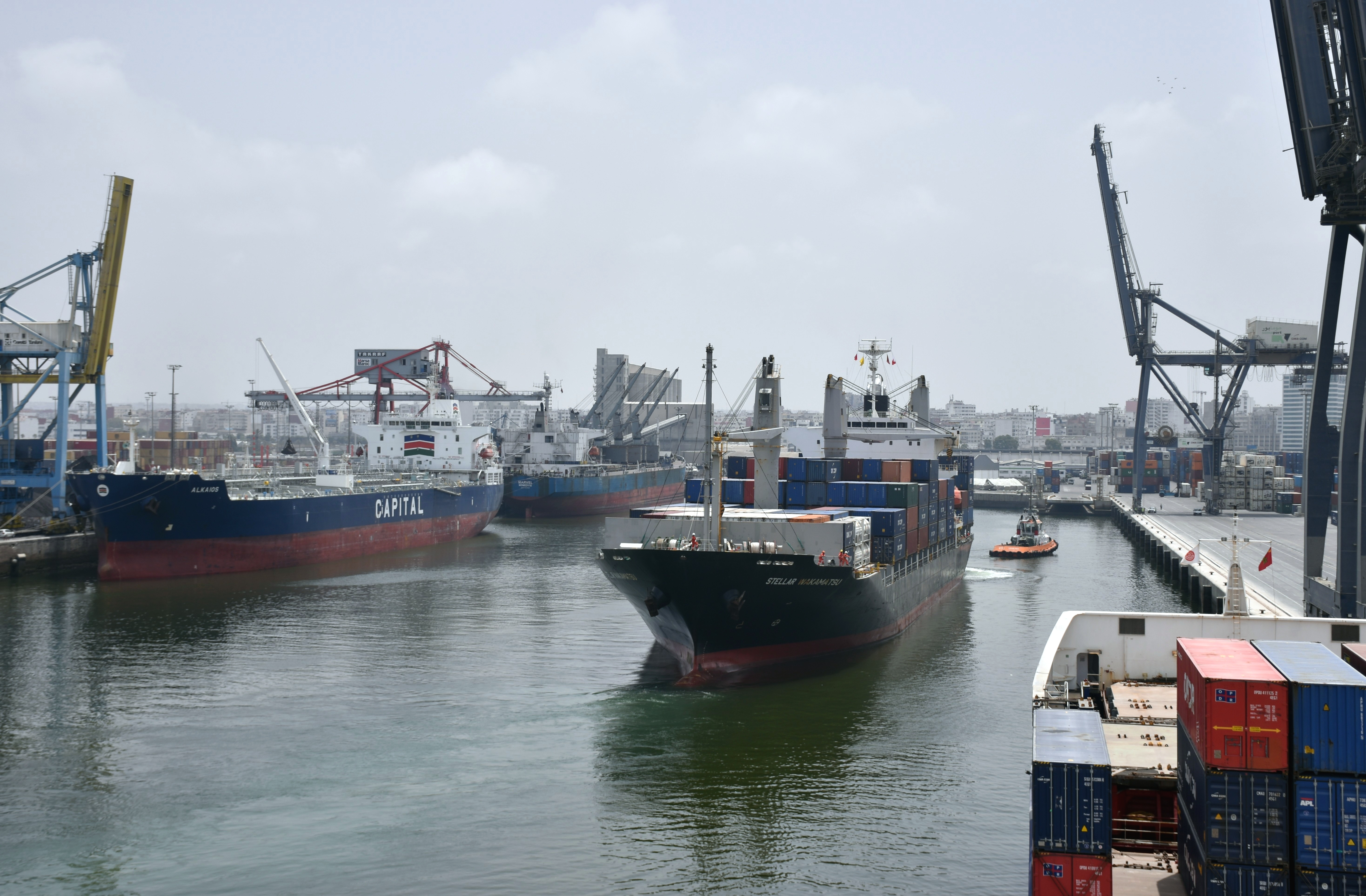 Vessels in the port of Casablanca